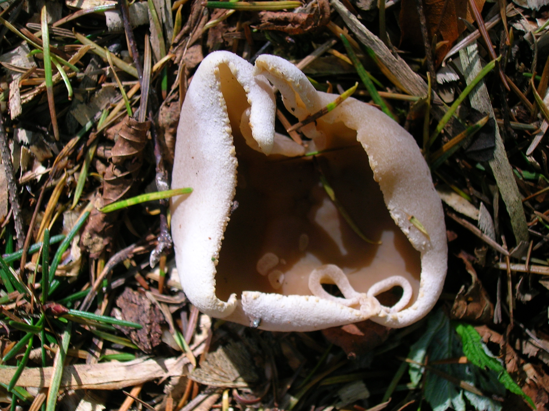 Peziza repanda - the Palamino Cup - Dean Country Park, Kilmarnock, East Ayrshire, Scotland